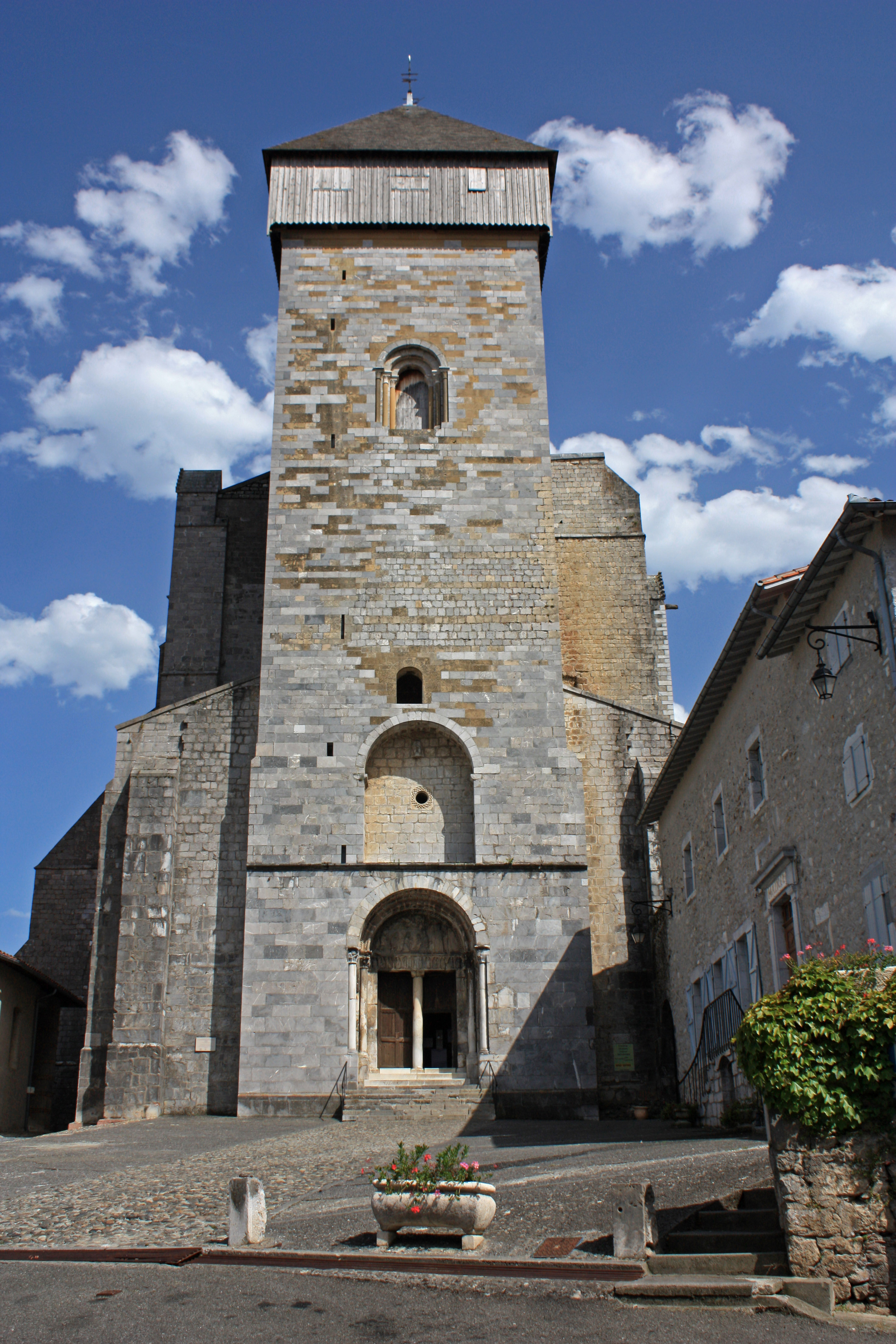 The place, the bell tower, the porch of Our Lady's cathedral of St. Bertrand-de-Comminges.